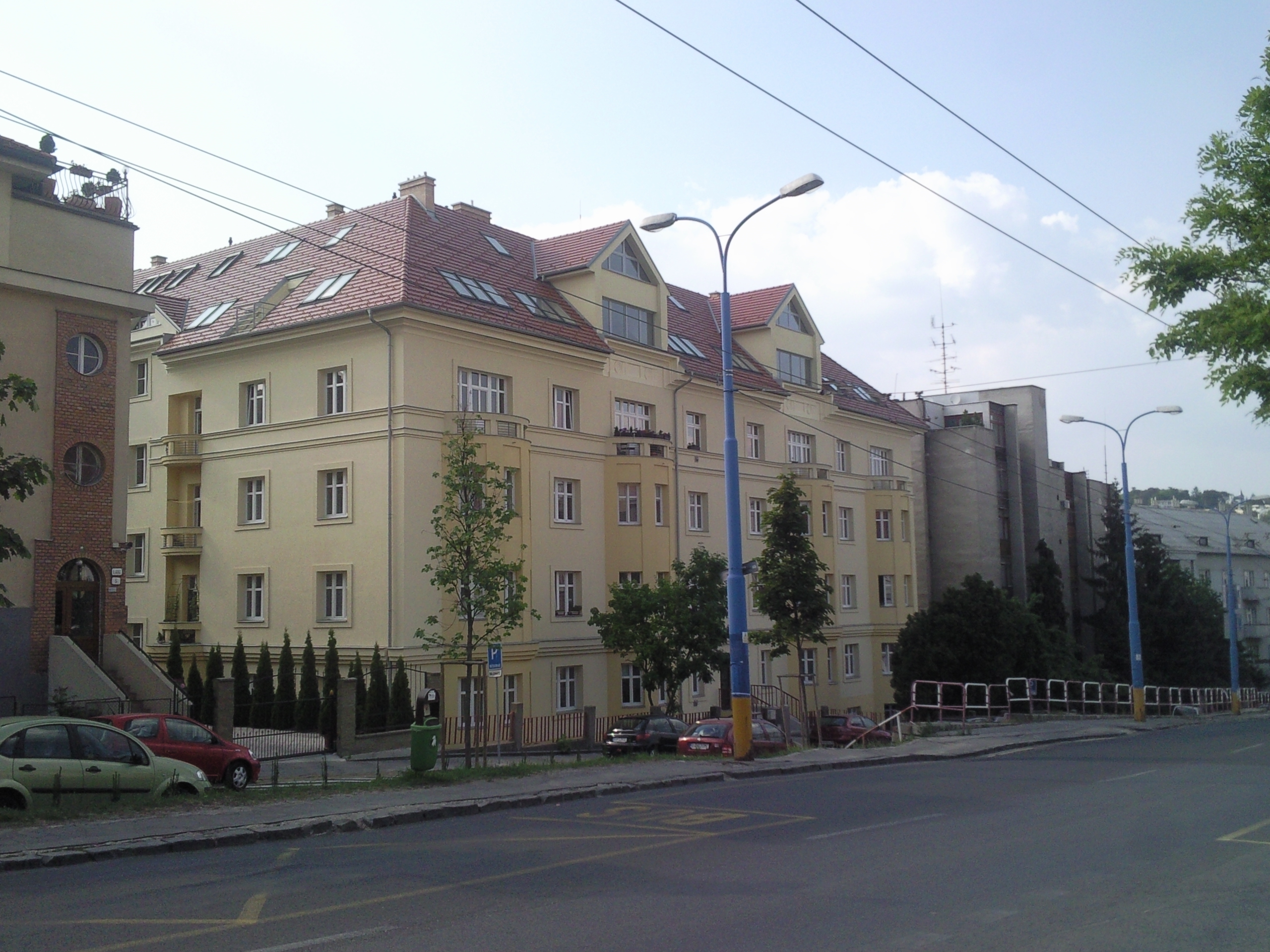 Interesting building at Palisády, Bratislave